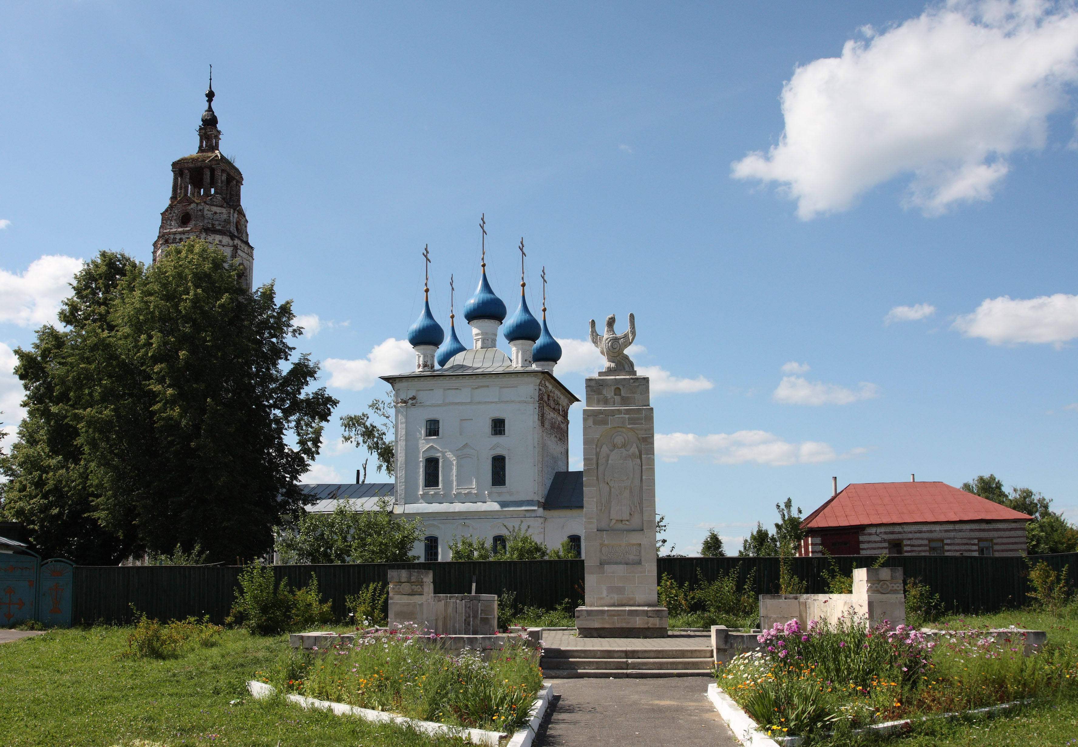 Monument to the extinct town of Starodub and the church of Intercession. Monument to the extinct town of Starodub and the church of Intercession in Klyazminsky Gorodok near Kovrov, Vladimir Oblast, Russia, Kovrov.